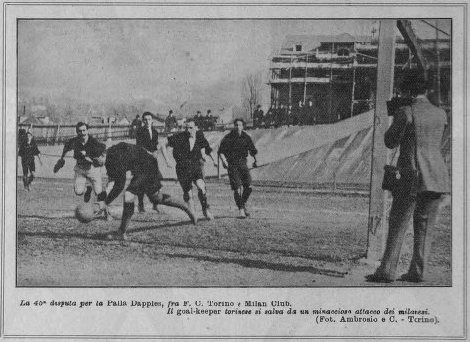 Torino-Milan Palla Dapples match, 1909.